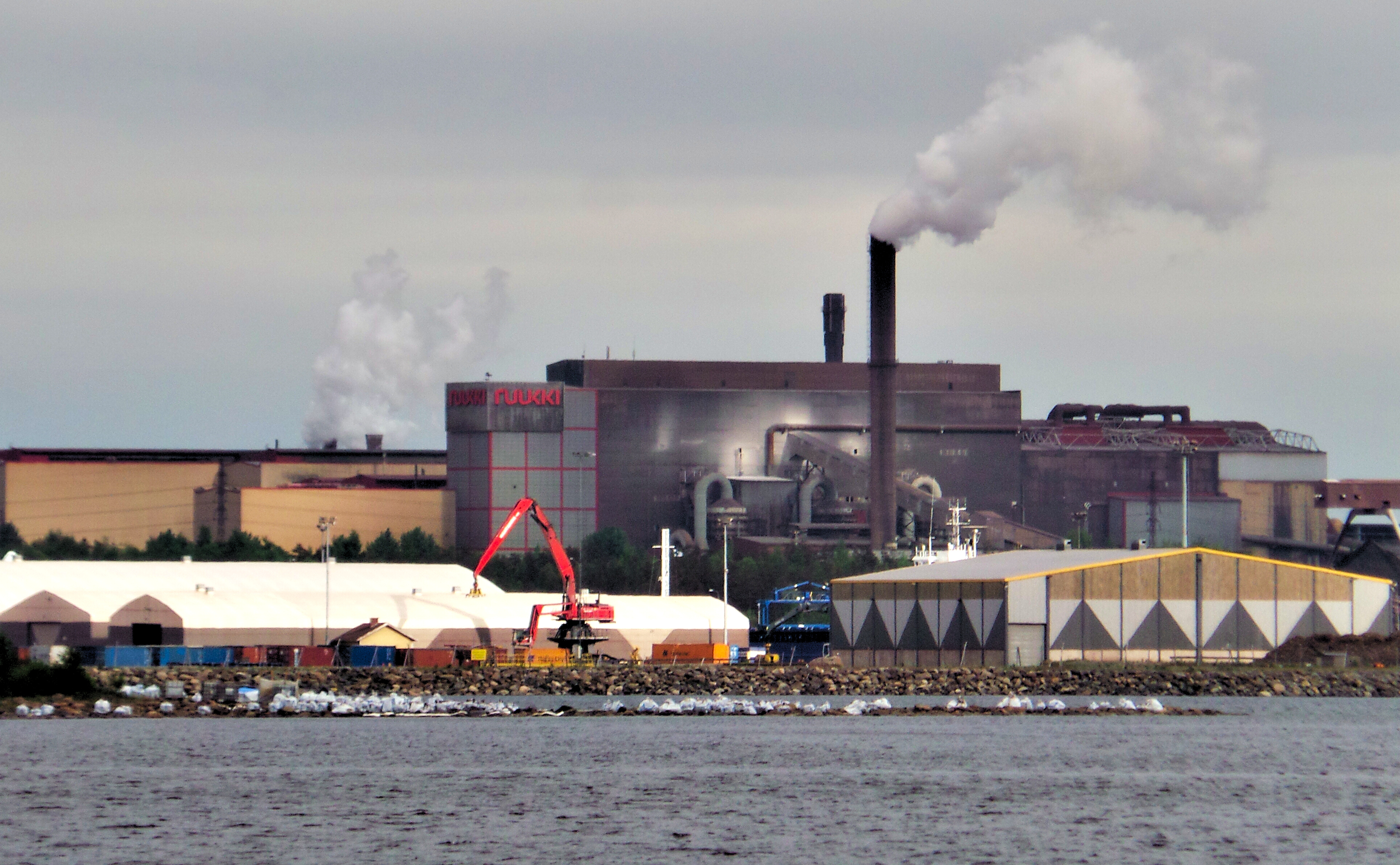 Bavs of rocks line shore near oil spill site in Raahe, Finland.